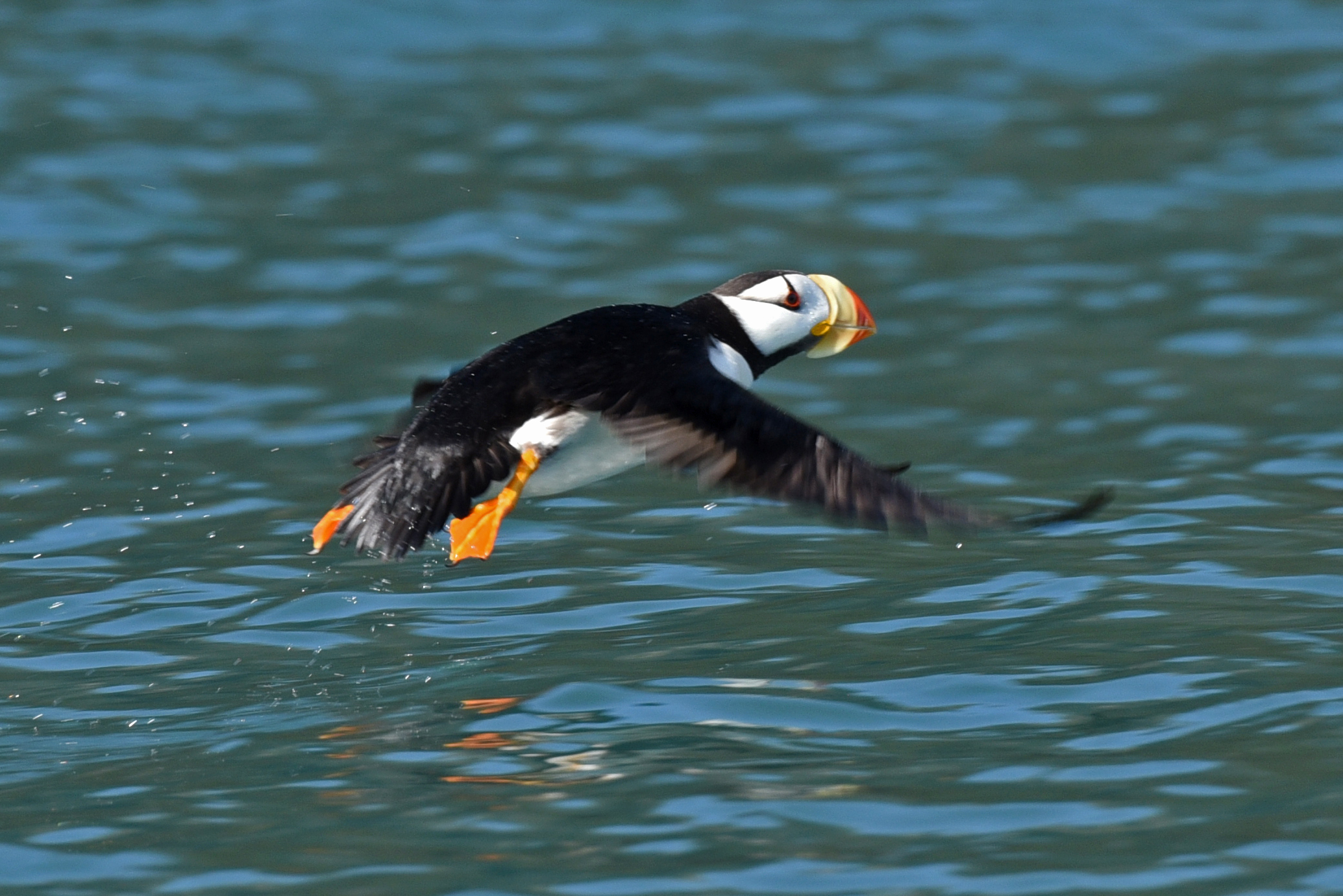 Horned Puffin, one of the species affected by a recent seabird die-off in the Pribilof Islands, AK. Near Chisik Island in Lower Cook Inlet, Alaska